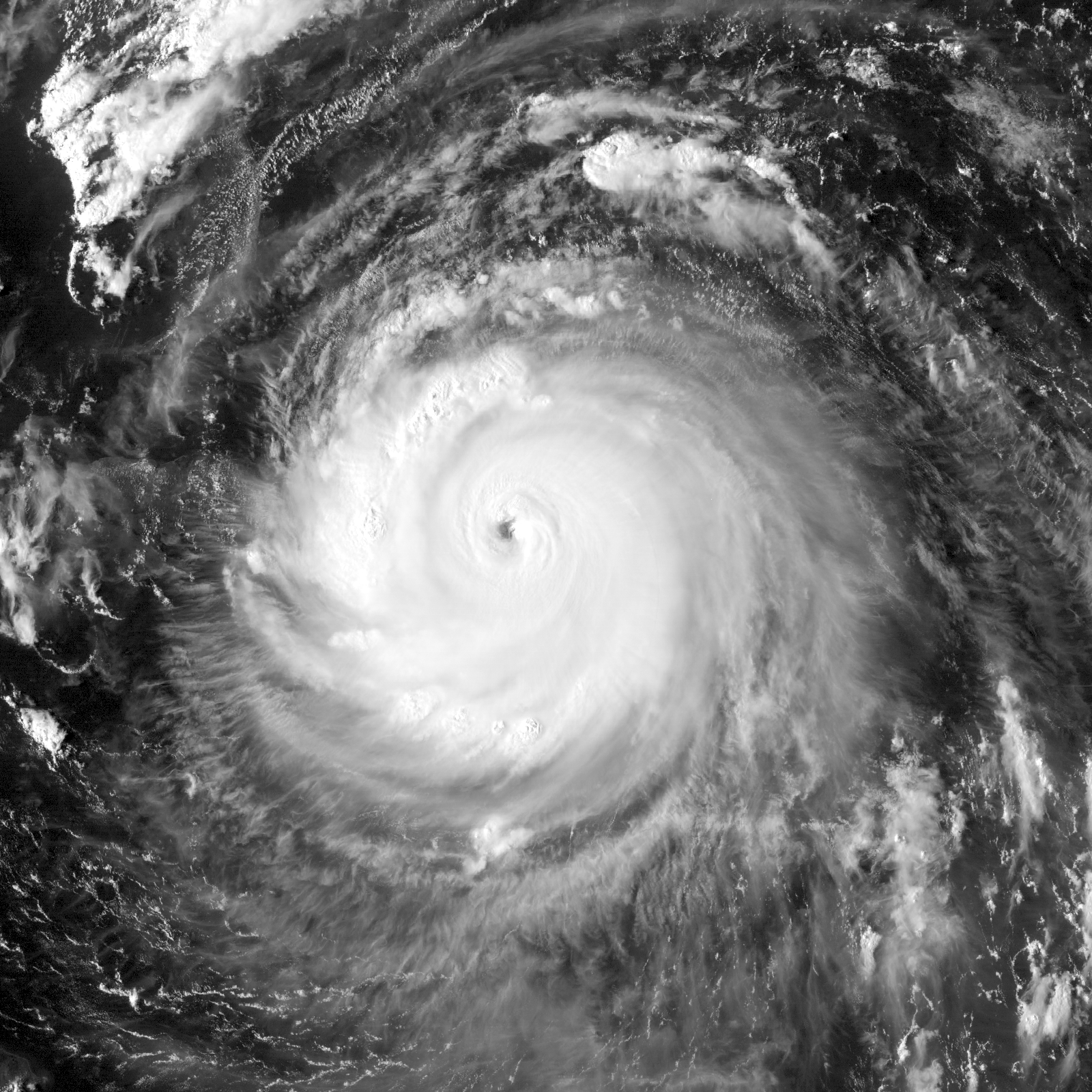 Geostationary image of 2017's Hurricane Irma (11L)